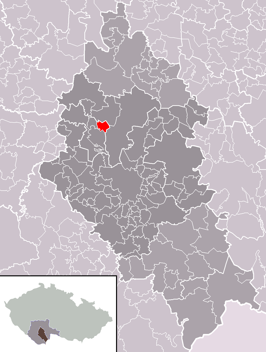 Location of Zahájí municipality within České Budějovice District and administrative area of České Budějovice as a Municipality with Extended Competence.